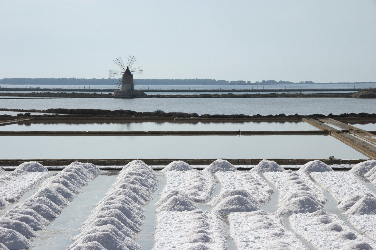 This is a photo of a monument which is part of cultural heritage of Italy. The authorisation for taking photos of this object was provided by the World Wide Fund for Nature Italy.